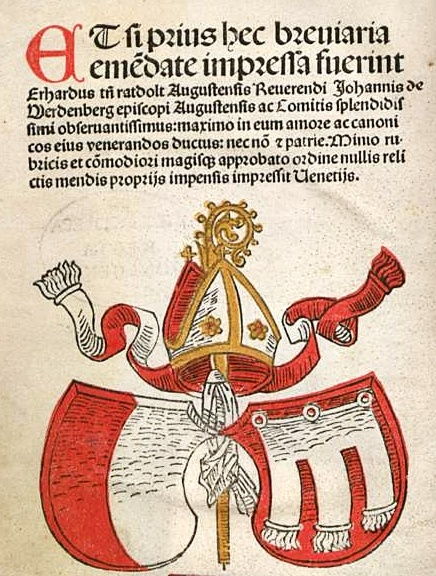 Wappen des Bischofs Johann von Werdenberg, in der Widmung des Augsburger Breviers, 1485